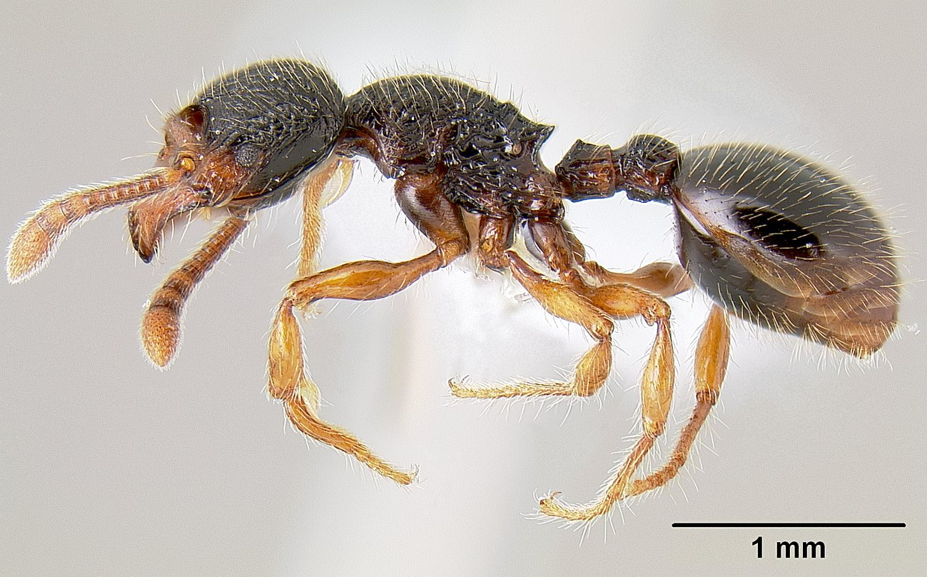 Profile view of ant Myrmecina graminicola specimen casent0106054.